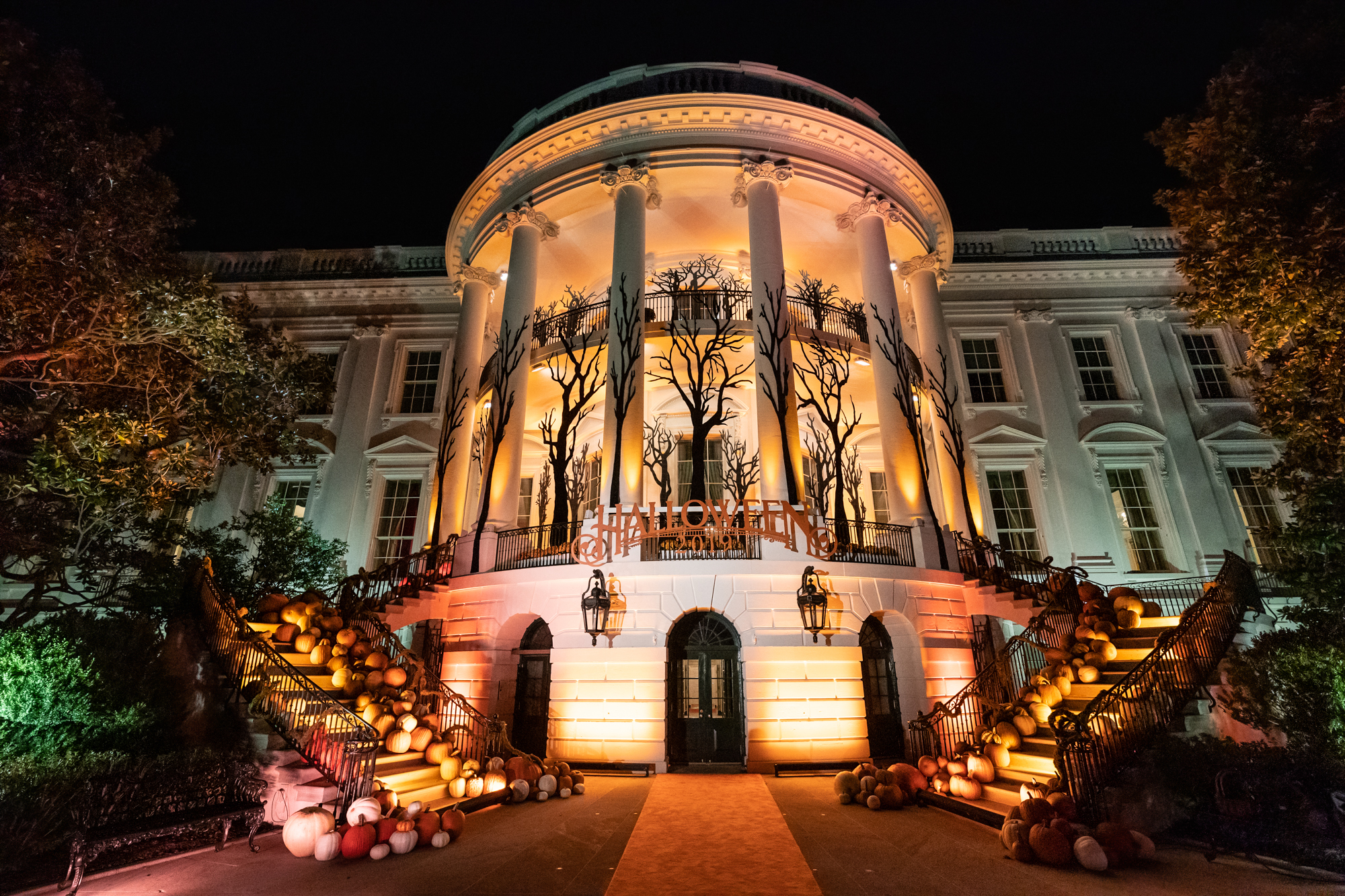 President Donald J. Trump and First Lady Melania Trump pass out candy to trick-or-treaters during the 2019 White House Halloween event Monday, Oct. 28, 2019, at the South Portico of the White House. (Official White House Photo by Tia Dufour)